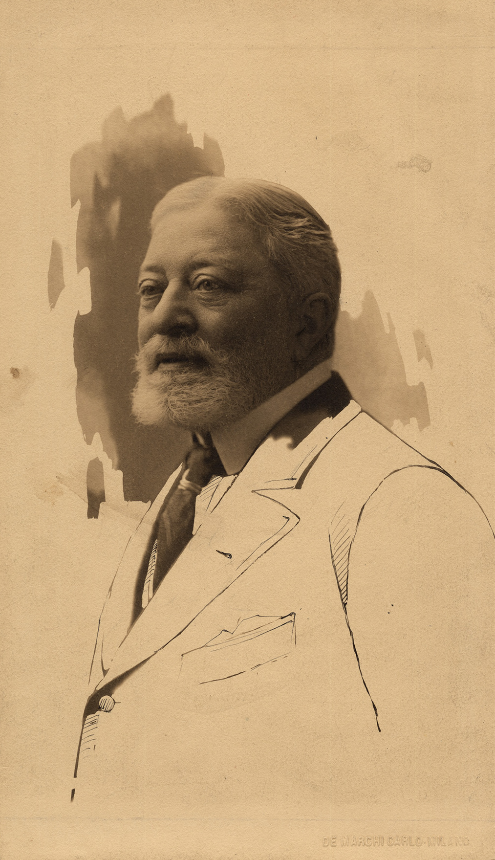 Portrait of Francesco Paolo Tosti, composer (1846-1916). Photo by Carlo De Marchi, Milano, before 1916.